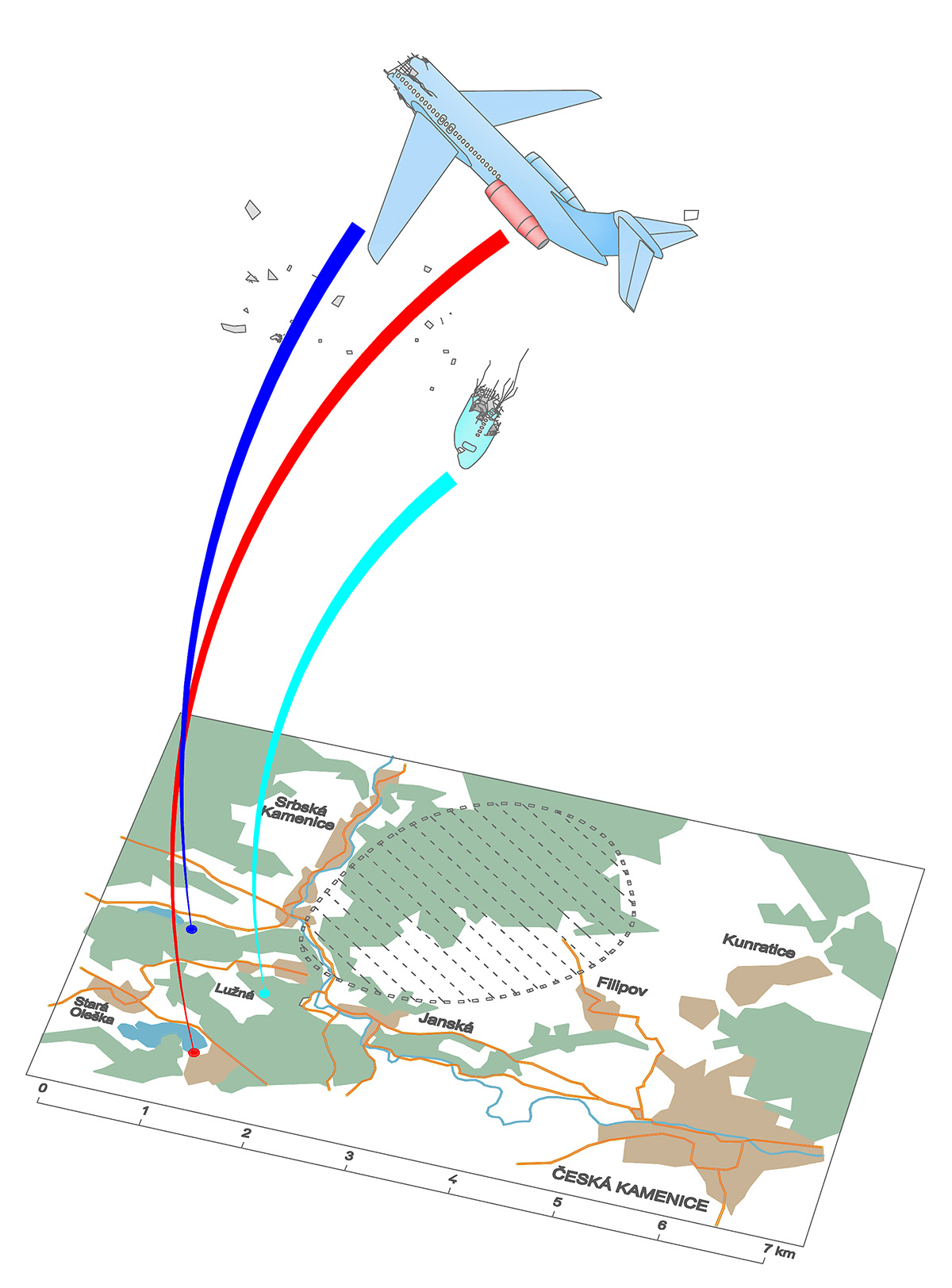 Map of debris of JAT367